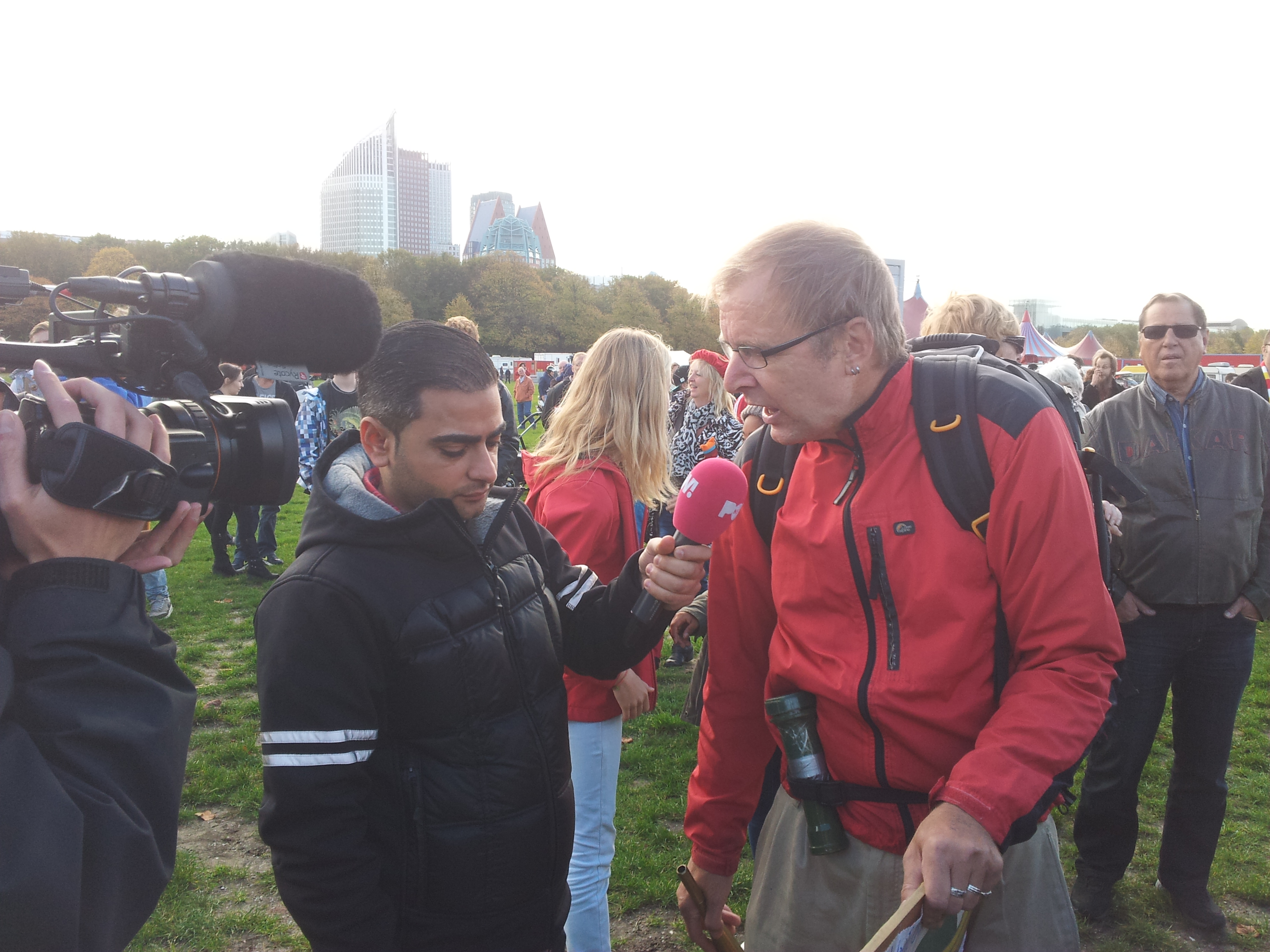 Lebanese-Dutch reporter Danny Ghosen (on the left) doing an interview for PowNews at a pro-Black Peter demonstration in The Hague on 26 October 2013